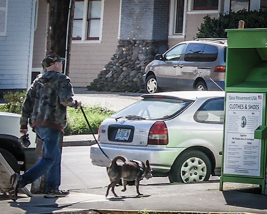 A photograph of the ordinary man